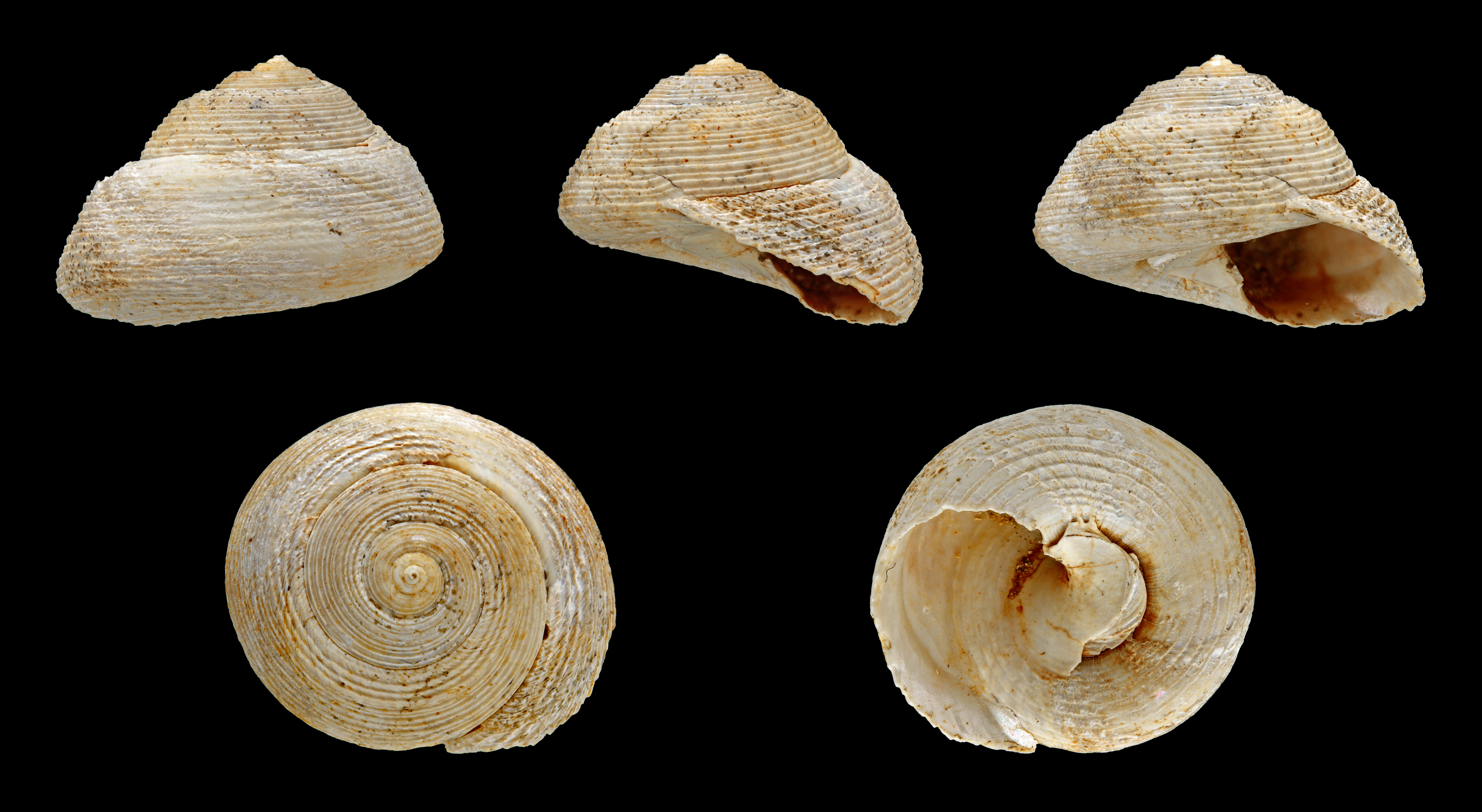 Diameter 1.6 cm; Miocene, Burdigalian; Léognan, France; Shell of own collection, therefore not geocoded.